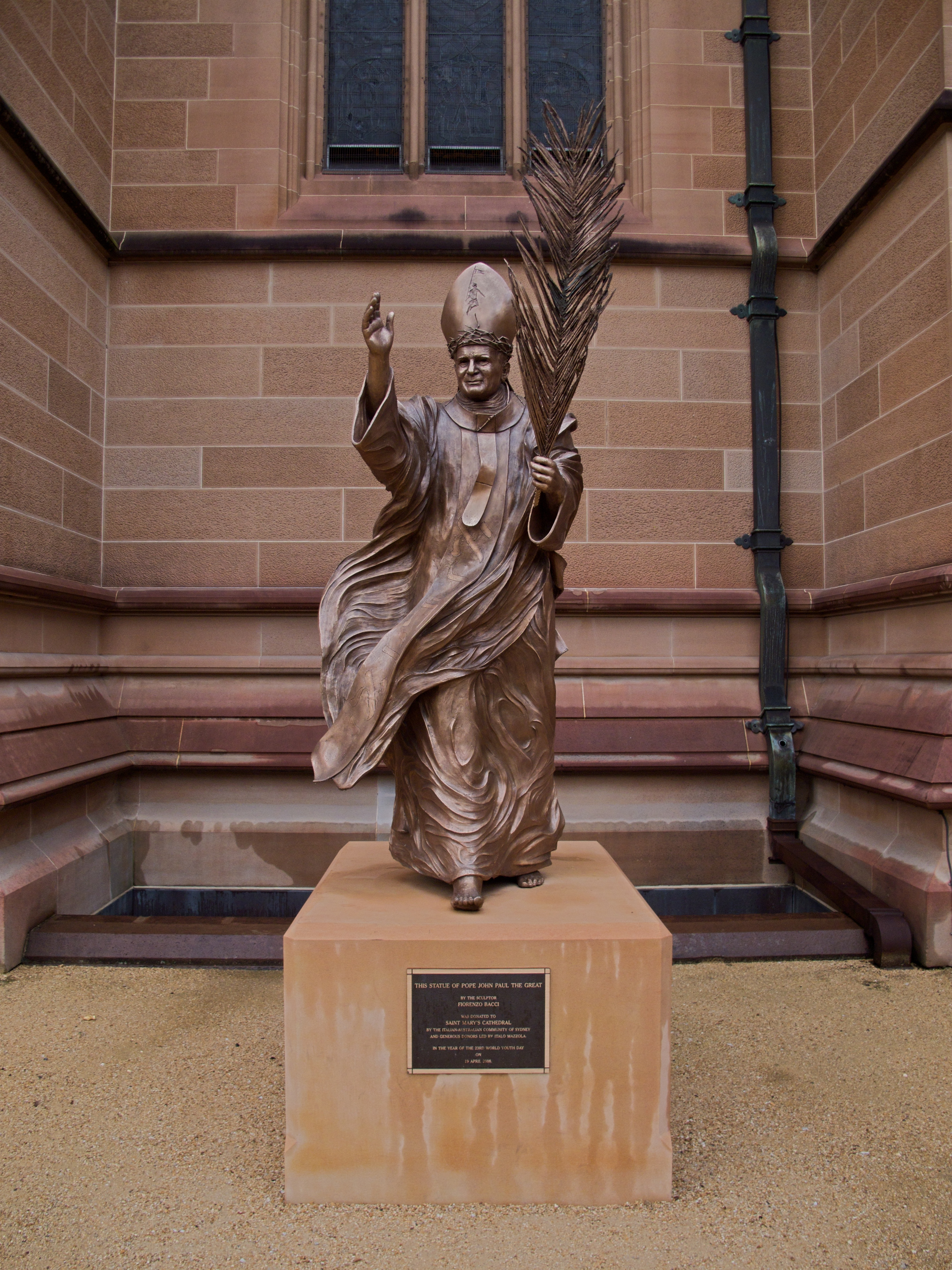 A statue of Pope John Paul II at St. Mary's Cathedral in Sydney, Australia.